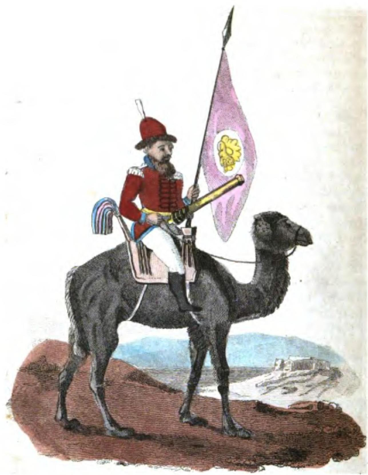 A Camel Artilleryman. Extracted image, p.77, from the book "Persia"